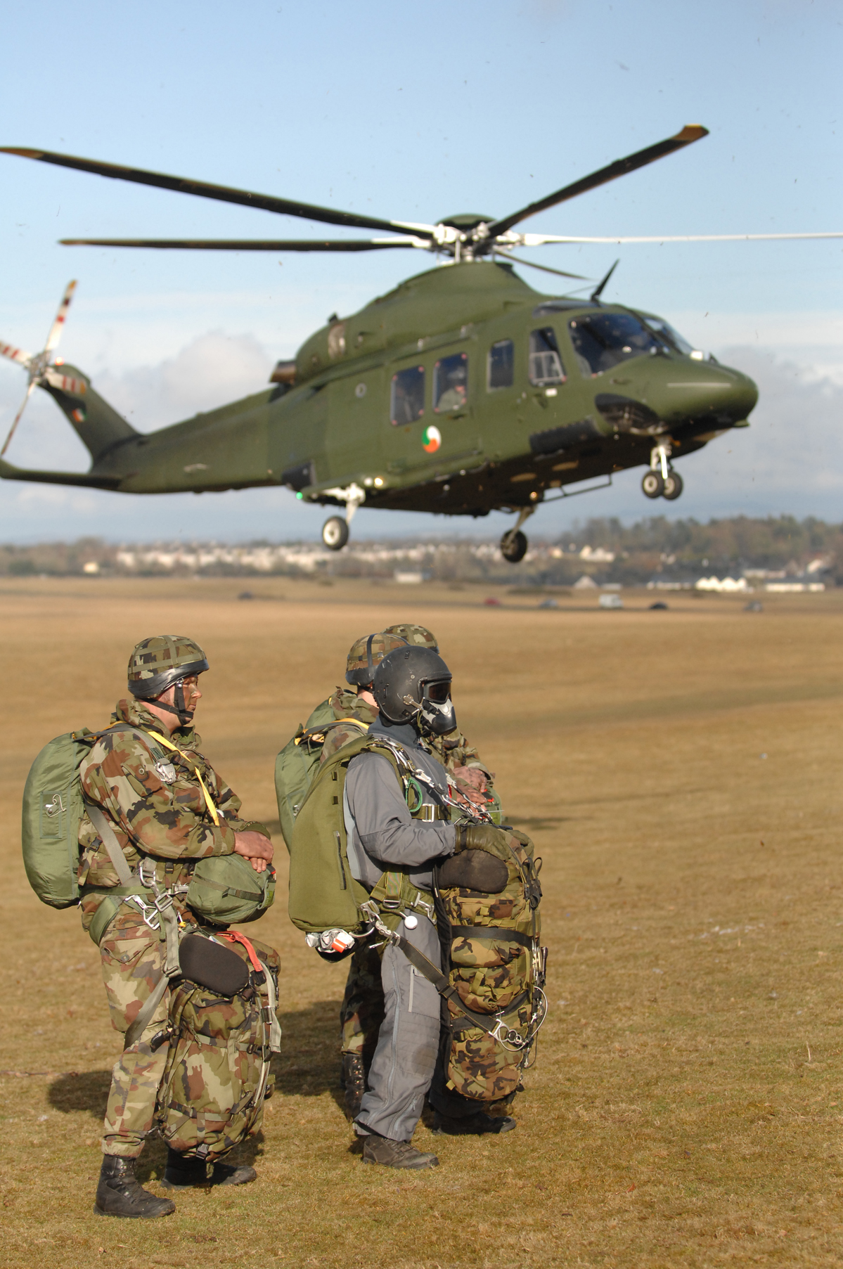 Irish Army Ranger Wing (ARW) parachute display for ARW 30th Anniversary.